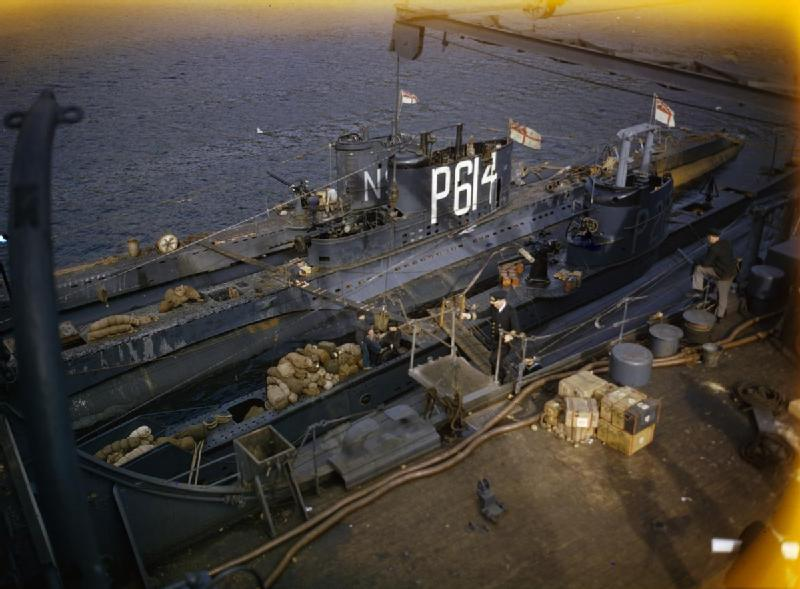 On Board the Submarine Depot Ship HMS Forth, Holy Loch, Scotland, 1942 Three submarines loading stores alongside HMS FORTH. HMS SIBYL is the inboard boat, with P614 alongside. Kit-bags and hammocks on the casing indicate that she had probably come from another port in Britain since kit-bags were not carried on patrol.